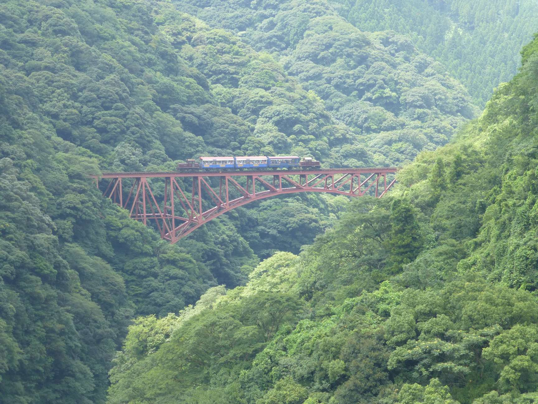 Daiichi-Shirakawa bridge on Minamiaso railway Takamori line. Sightseeing train "Yusuge" is on the bridge. The photo was taken before 2016 Kumamoto earthquake.